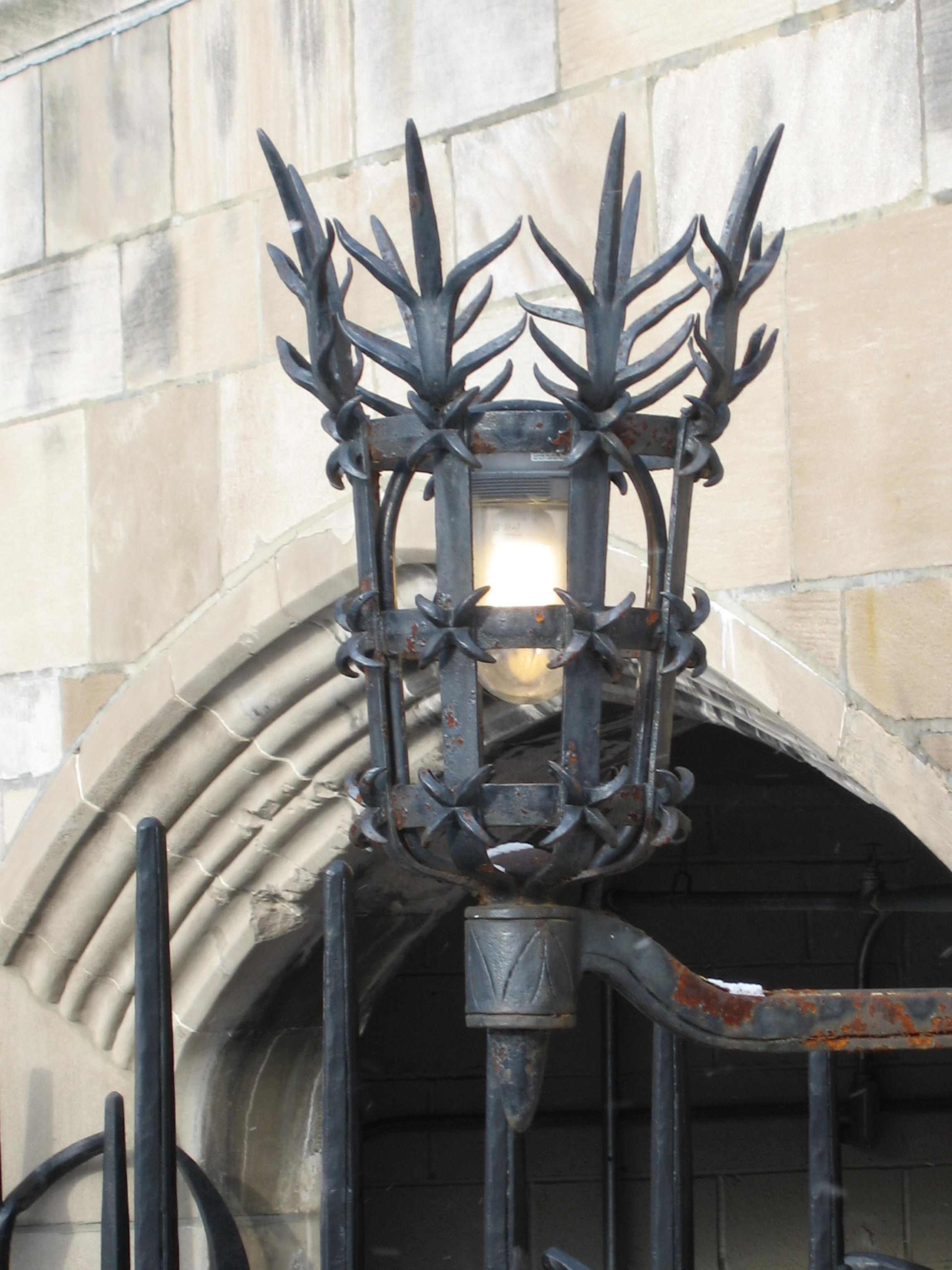 Light fixture on the garage entrance to the Cathedral of Learning